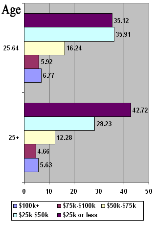 I created the graph myself using US Census Bureau data taken from here and here.